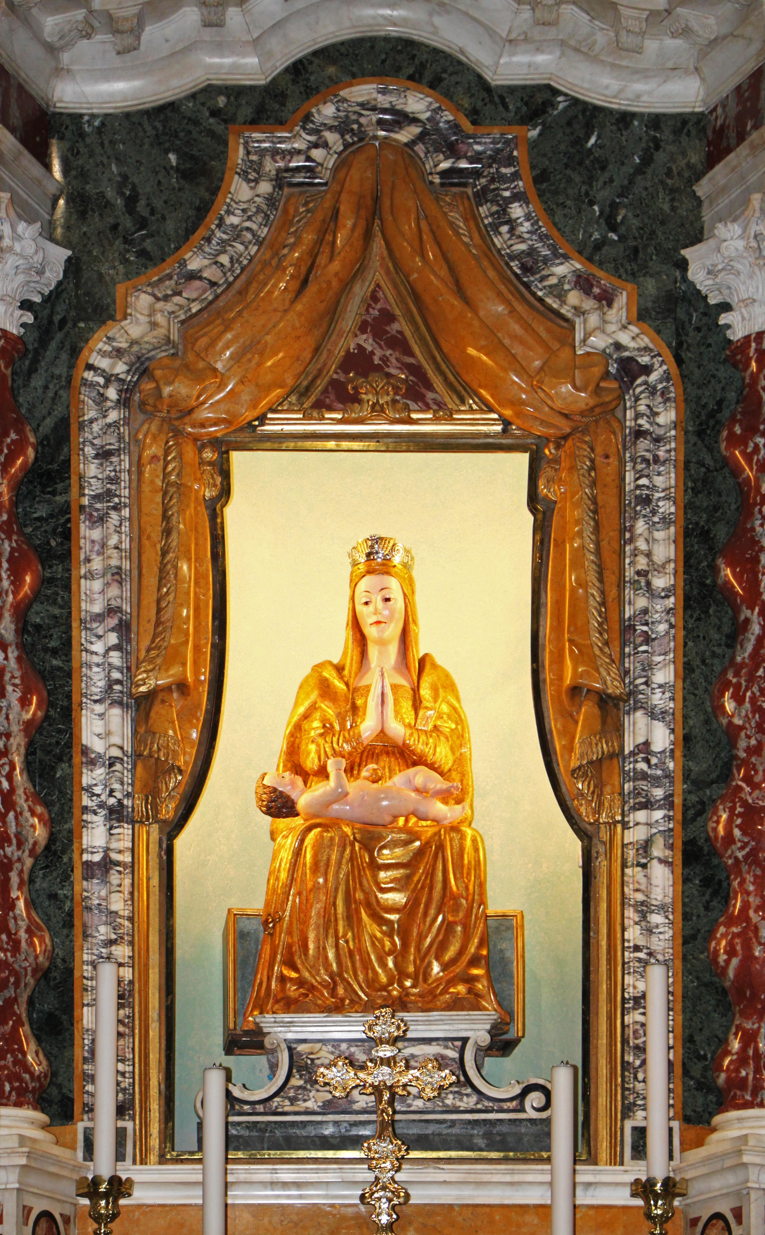 Chiesa Parrocchiale di Santa Maria Assunta, Riva del Garda, Italy. "Madonna dei Miracoli", a statue of the sculptor Antonio of Chiavica from the year 1488